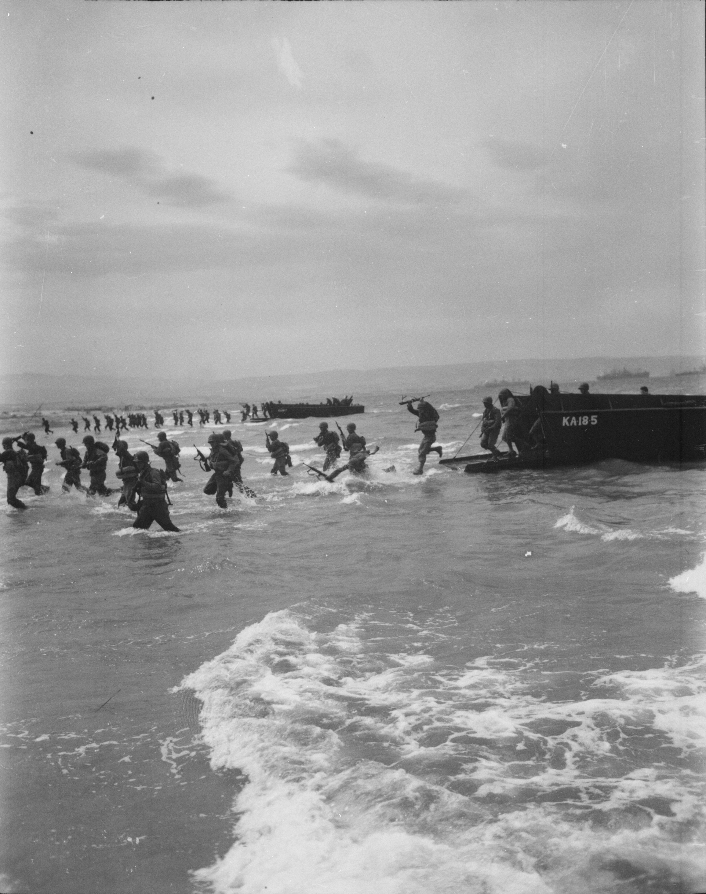 U.S. troops landing during an exercise near Algiers, North Africa, in April 1944. The landing craft belong to the attack transport USS Cepheus (AKA-18), which was manned by the U.S. Coast Guard. Cepheus was commissioned on 16 December 1943 and put to sea from Staten Island, New York (USA), 27 February 1944, bound in a convoy for Liverpool (UK). The convoy arrived safely 9 March, with its cargo destined for the Normandy invasion. Joining her assigned division in Scottish waters, Cepheus sailed for Oran (French Algeria), where she arrived 6 April to report to the Eighth Amphibious Force. After training exercises along the Algerian coast, she loaded vehicles and troops for the passage to Naples (Italy), where she unloaded 19 June to 23 June 1944. Original text: "From Coast Guard-manned "sea-horse" landing craft, American troops leap forward to storm a North African beach during final amphibious maneuvers. ca. 1944"